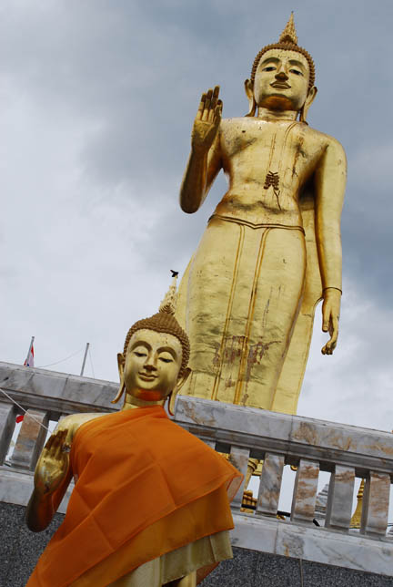 Picture was taken at Hat Yai Municipal Park (สวนสาธารณะเทศบาลเมืองหาดใหญ่) on Kanchanawanit Road, six kilometers from the city center on the Hat Yai-Songkhla highway.